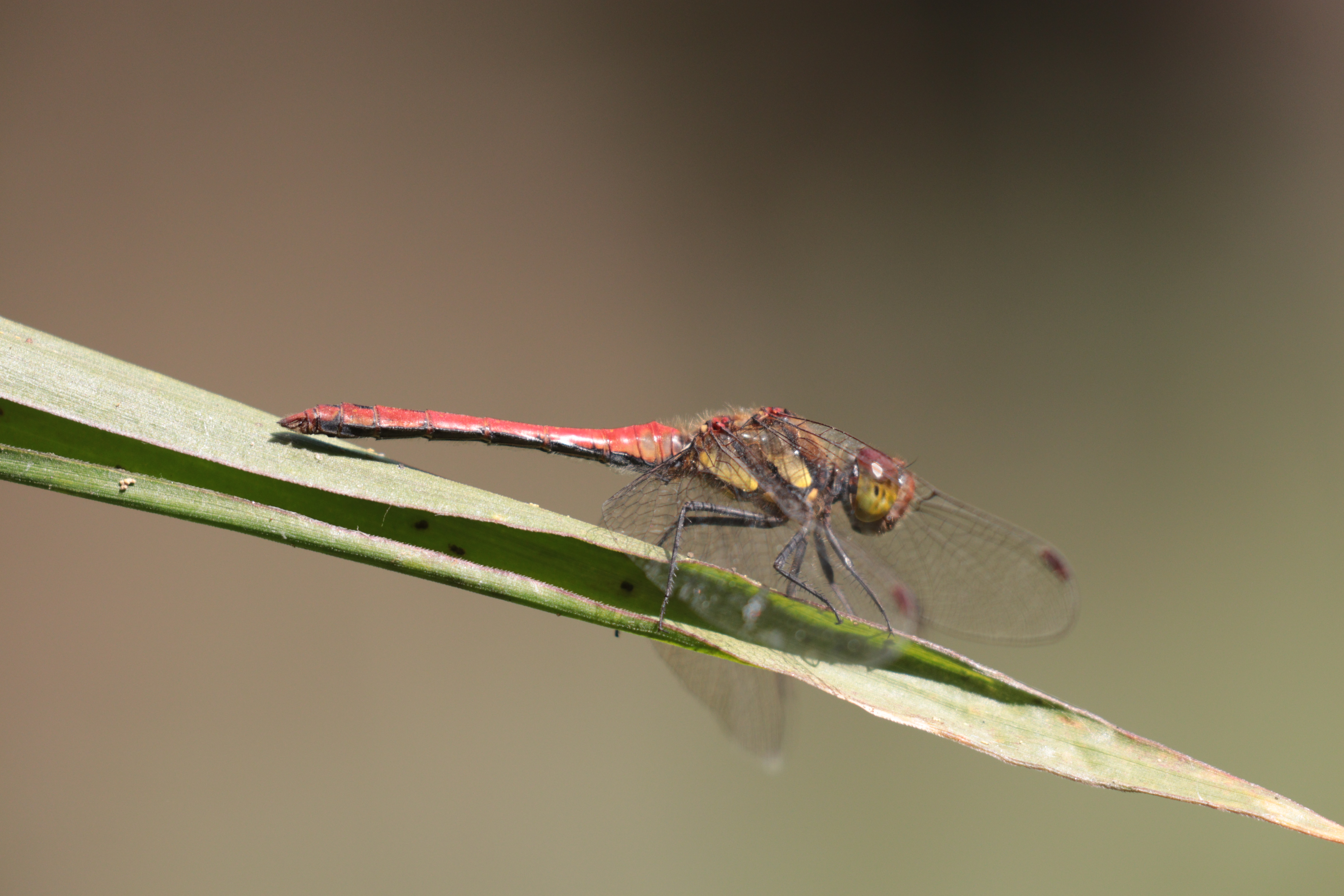 Sympetrum commixtum, male, National Botanical Garden, Godawari, Nepal